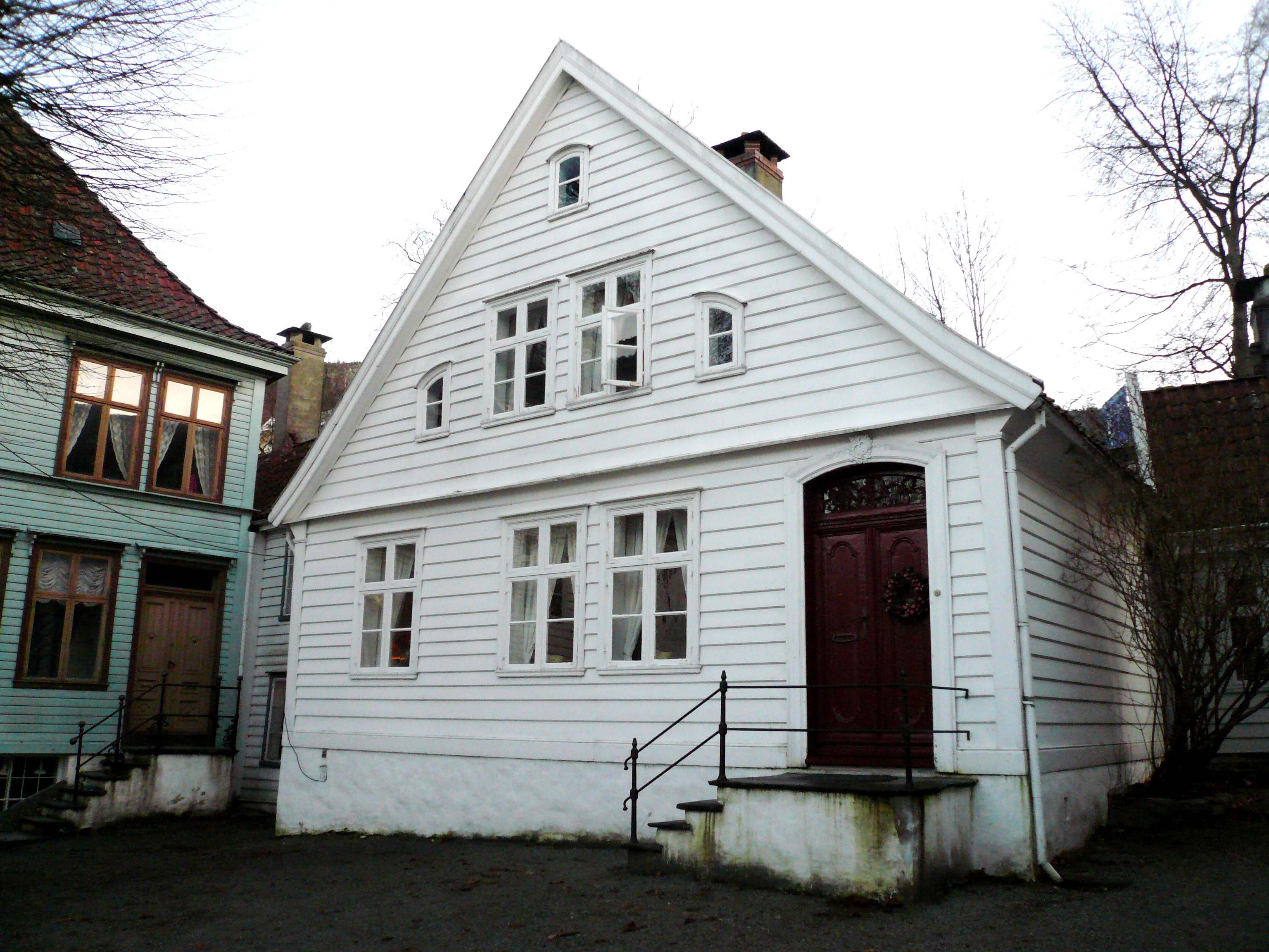 Kong Oscarsgate 42, Gamle Bergen museum, Norway. House of Dorothe Engelbretsdatter.